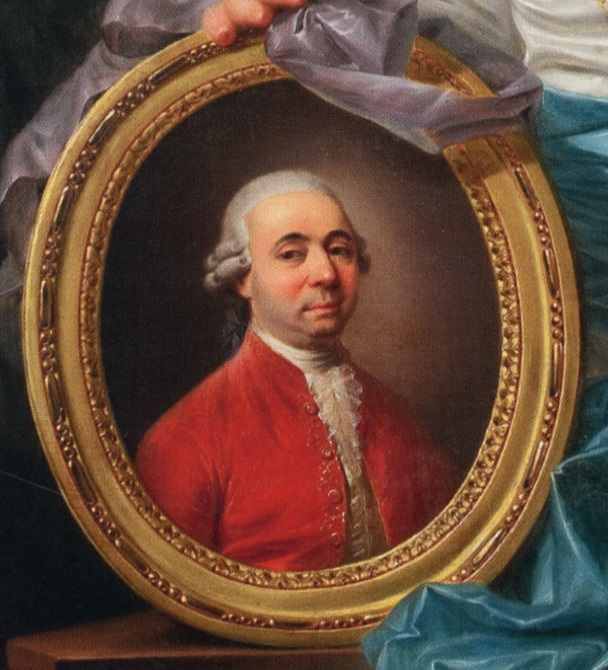 François de Beauharnais (1714-1800)